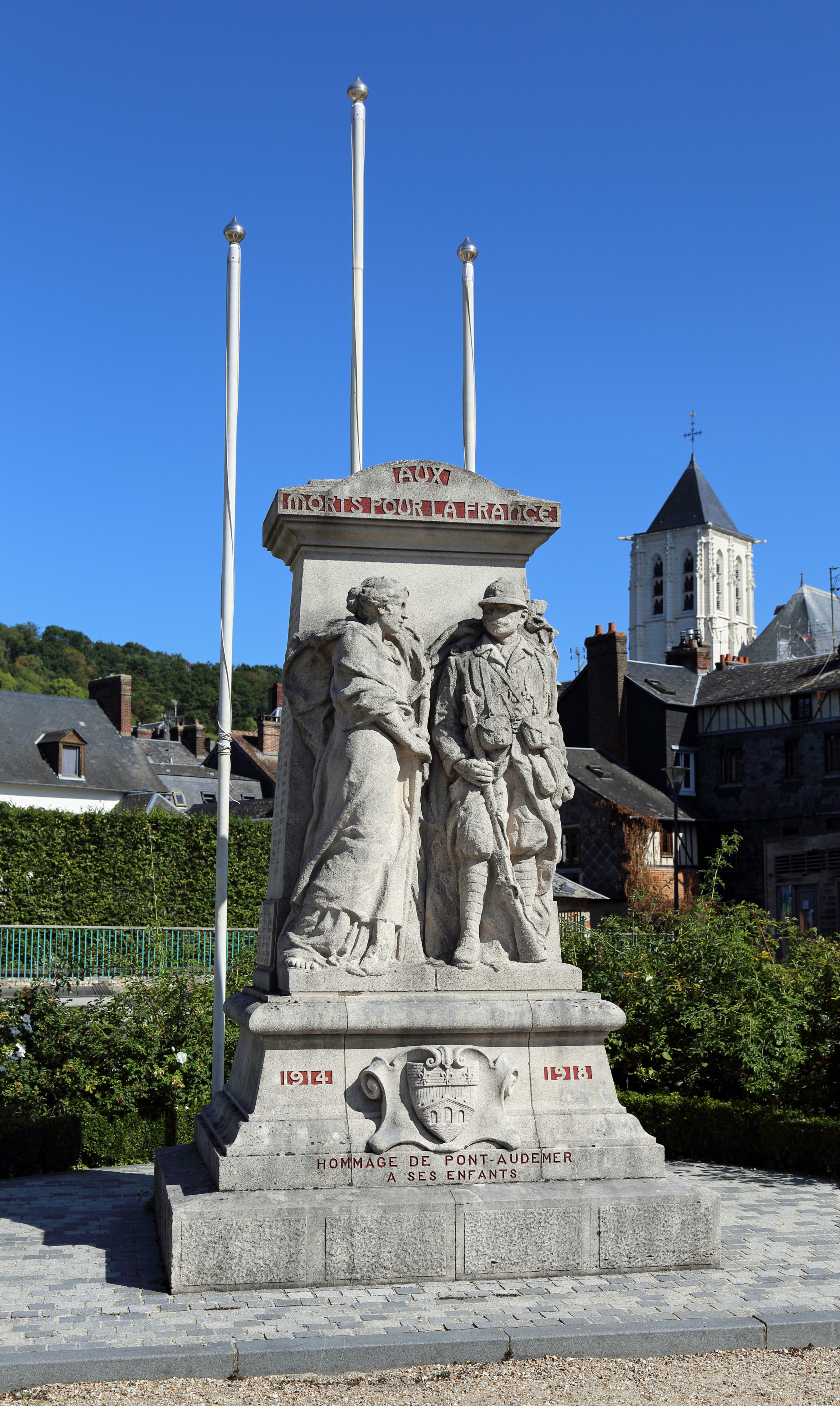 Pont-Audemer (Eure department, France): war memorial